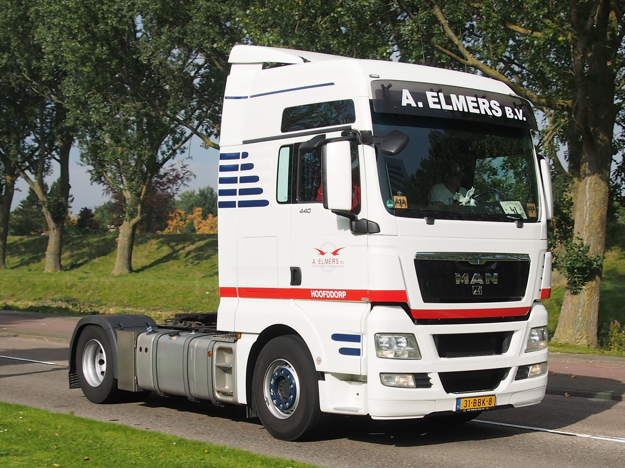 Photographed at Hoofddorp, The Netherlands.